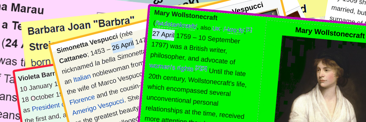 This file contains a Twitter banner for #wikiwomen in red and the women in red project. It was created from wikipedia screendumps by Victuallers